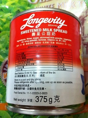 Longevity Brand, 壽星公 Condensed milk 煉奶